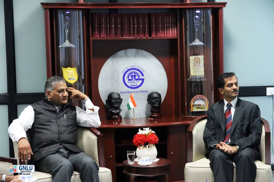 India's minister for external affairs, retired Gen. V. K. Singh, at an international conference at the Center for Foreign Policy and Security Studies, Gujarat National Law University, with the university's Vice Chancellor, Bimal N. Patel